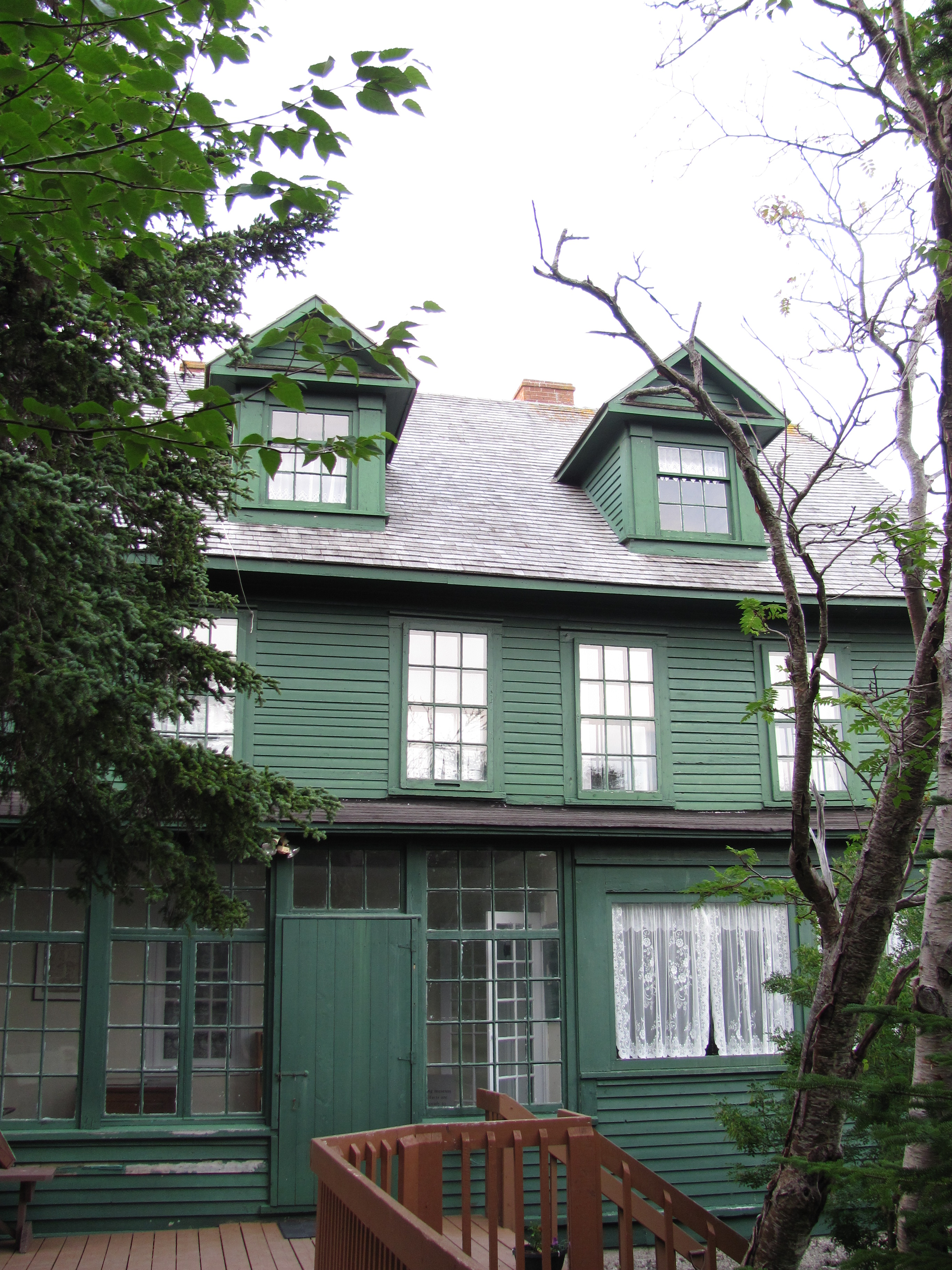 Grenfell Museum, St. Anthony, Newfoundland, Canada